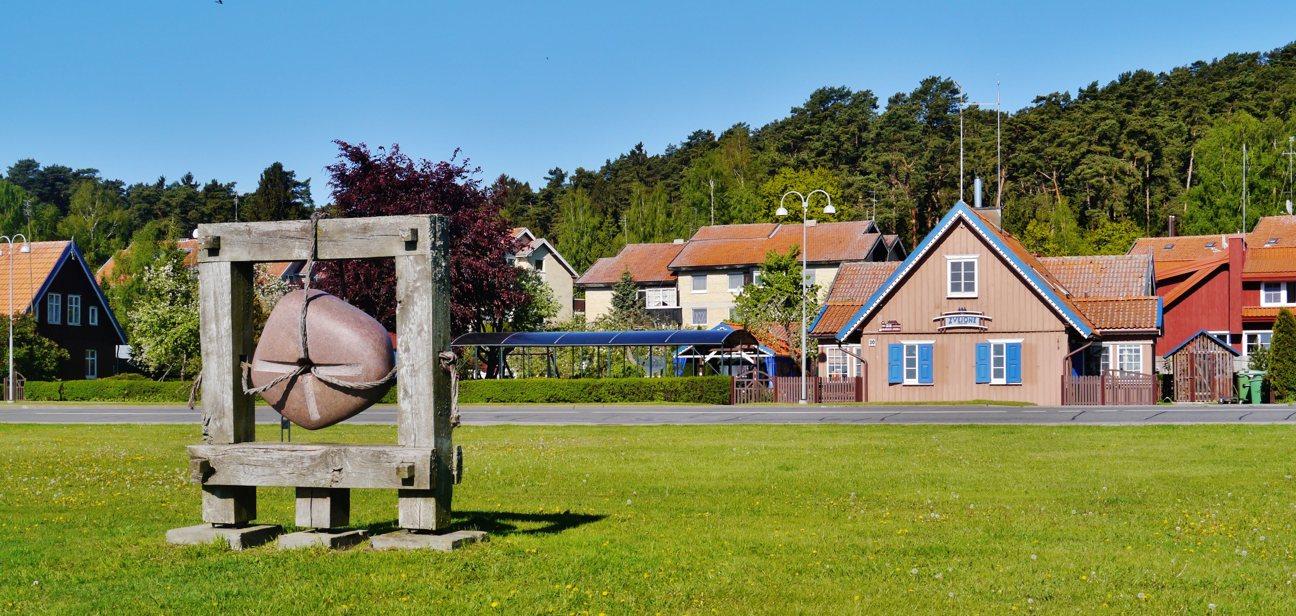 Wooden houses at Juodkrante, Curonian Spit, Lithuania